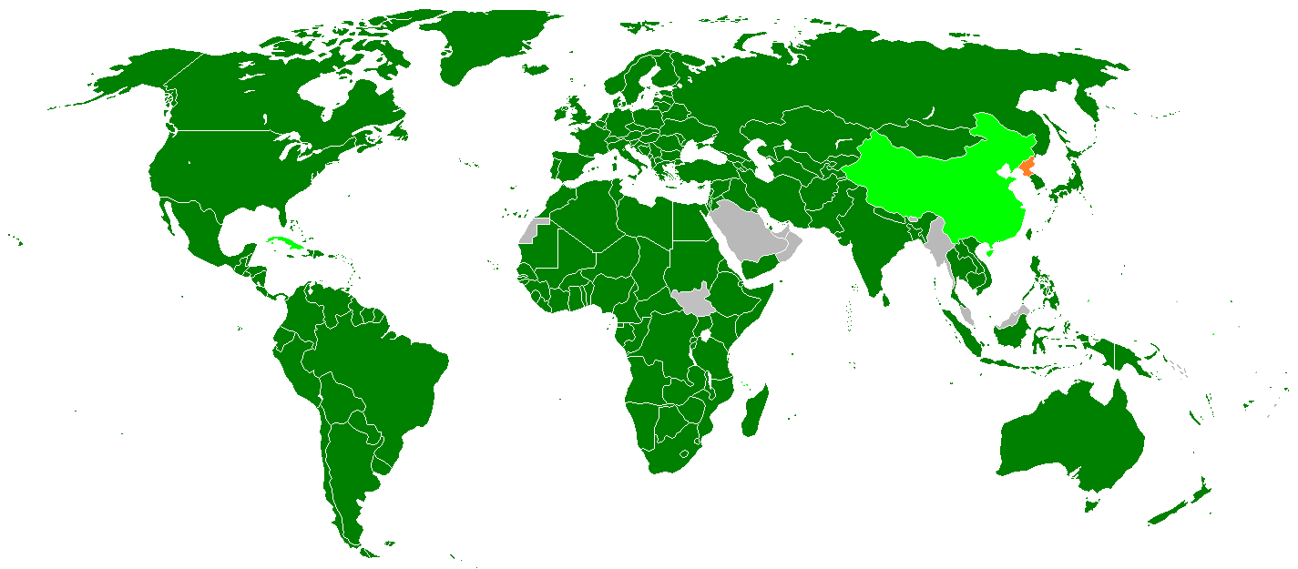 Dark Green - signed and ratified Light Green - signed, but not ratified Orange - signed, ratified but has stated it wishes to leave the covenant.